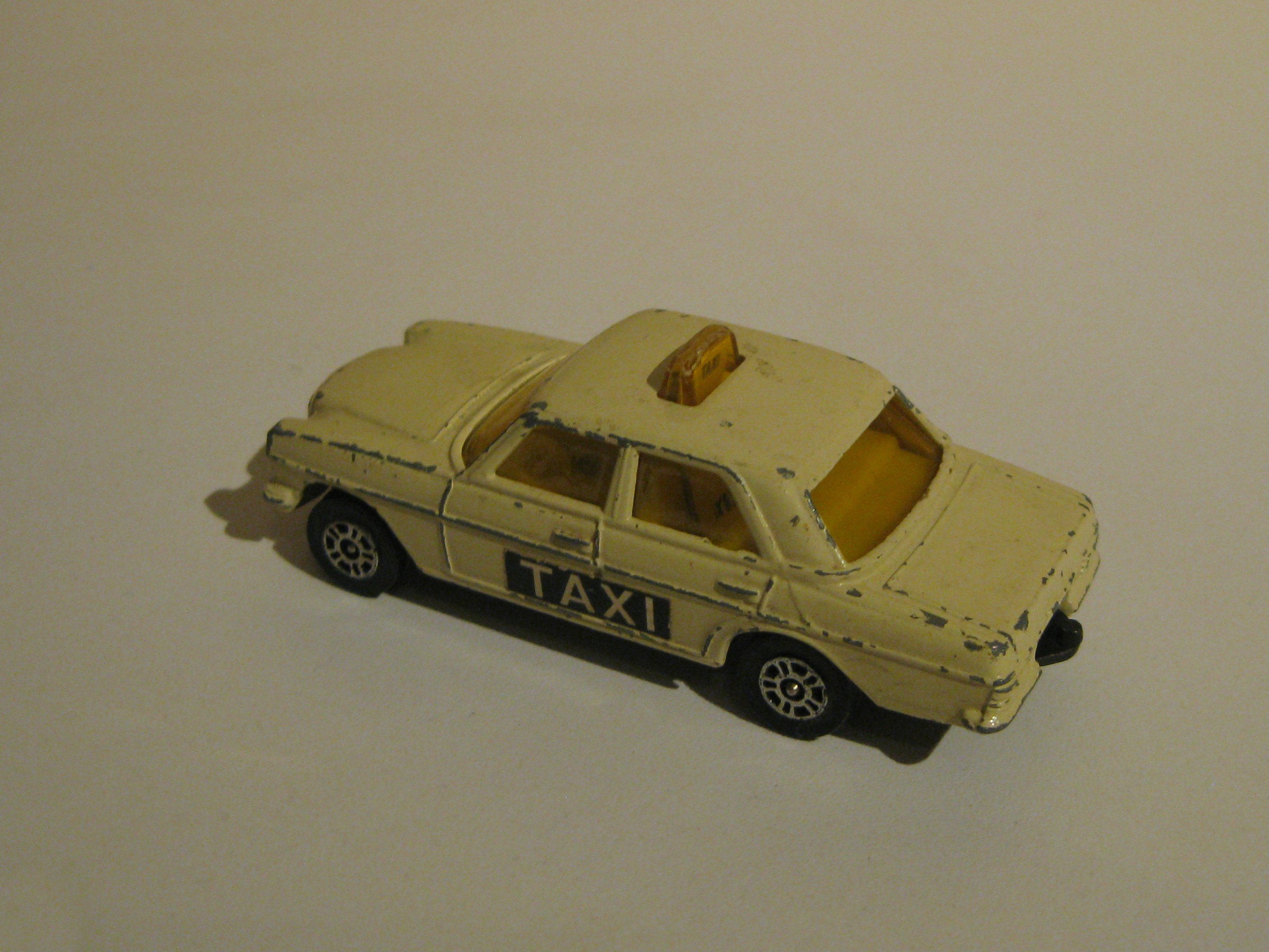 Mercedes 240D by Corgi Junior